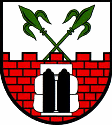 Coat of Arms of Gebhardshagen